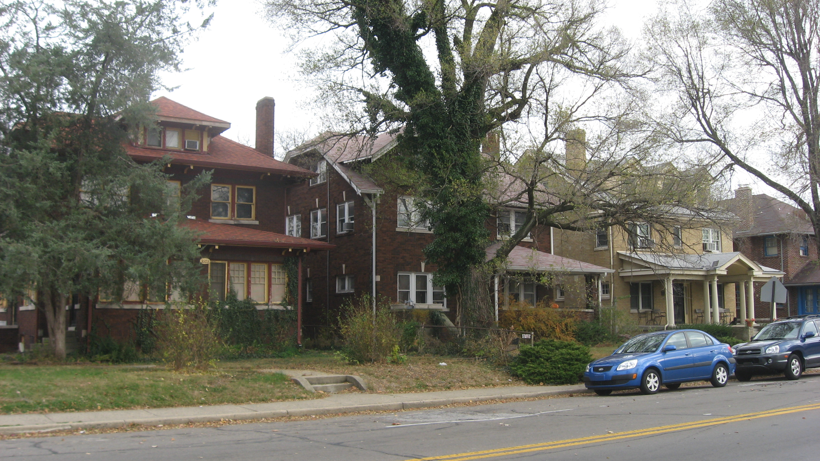 Houses on the eastern side of the 3500 block of Central Avenue in Indianapolis, Indiana, United States. This block is part of the Central Court Historic District, a historic district that is listed on the National Register of Historic Places.